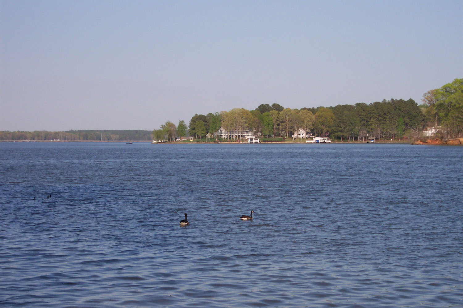 Lake Gaston, during the daytime, 2007. This picture was taken from the Old Bridge Point subdivision, on Hubquarter Creek, looking Northeast towards the main lake. The date in the metadata is incorrect, due to not setting the camera date.